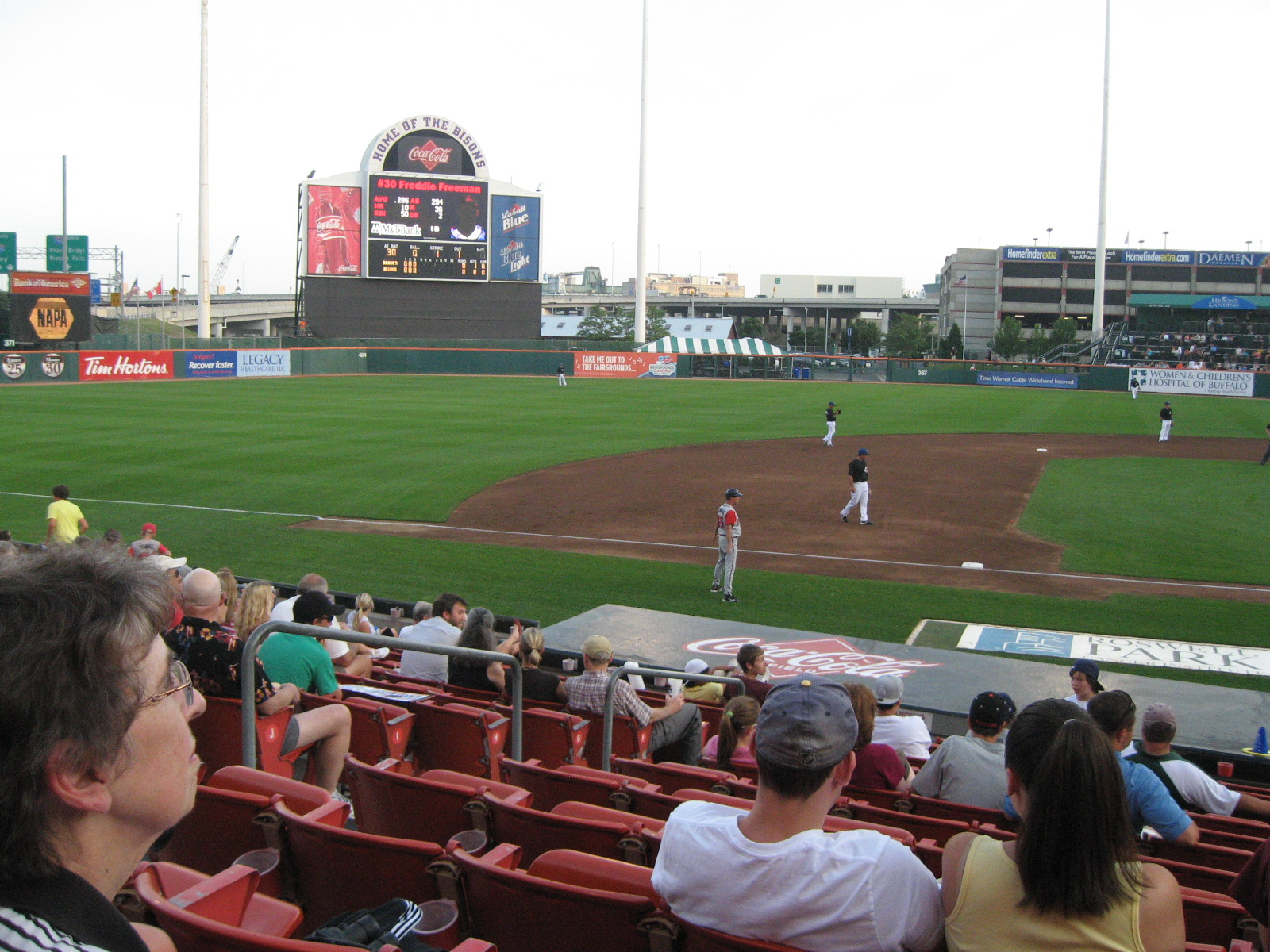 Buffalo Bisons vs. Gwinnett Braves MiLB game in Buffalo, NY.